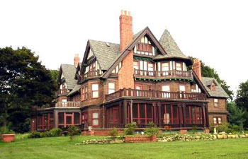 East side of the Harry E. Donnell House in Eatons Neck, NY. Now the Carr Bed and Breakfast (71 Locust Lane, Eatons Neck, New York, United States), the 1903 Mansion is on the National Register of Historic Places.